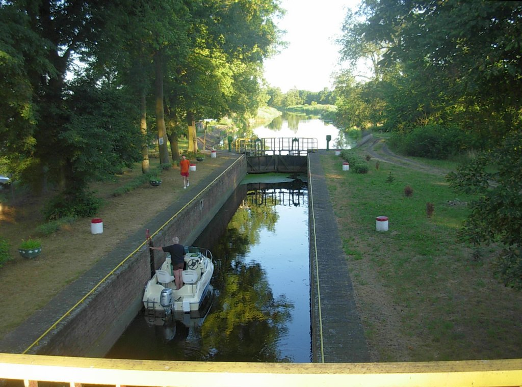 Górnonotecki Canal